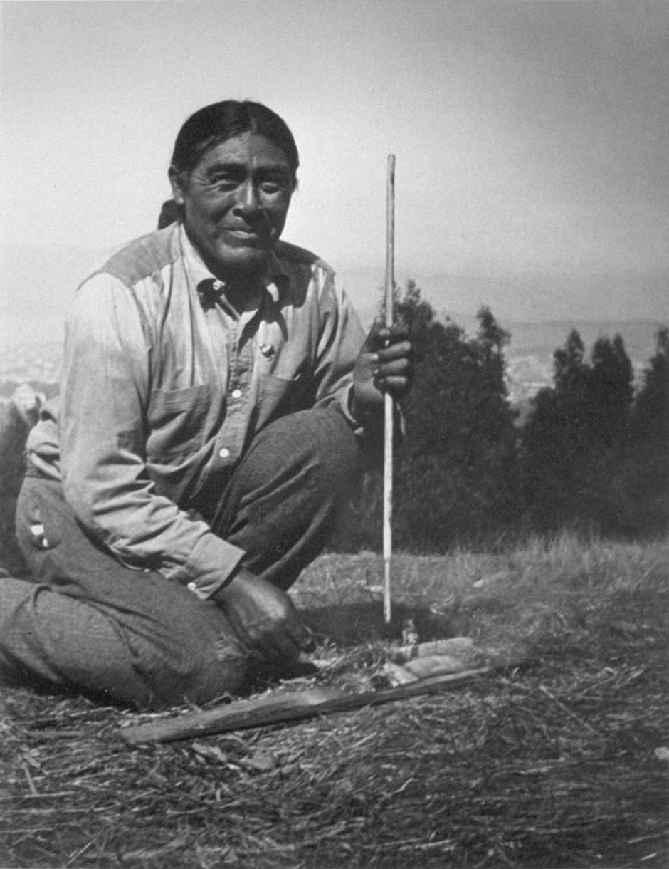 Ishi (1860-1916), last surviving member of the Yahi Indian tribe of California.